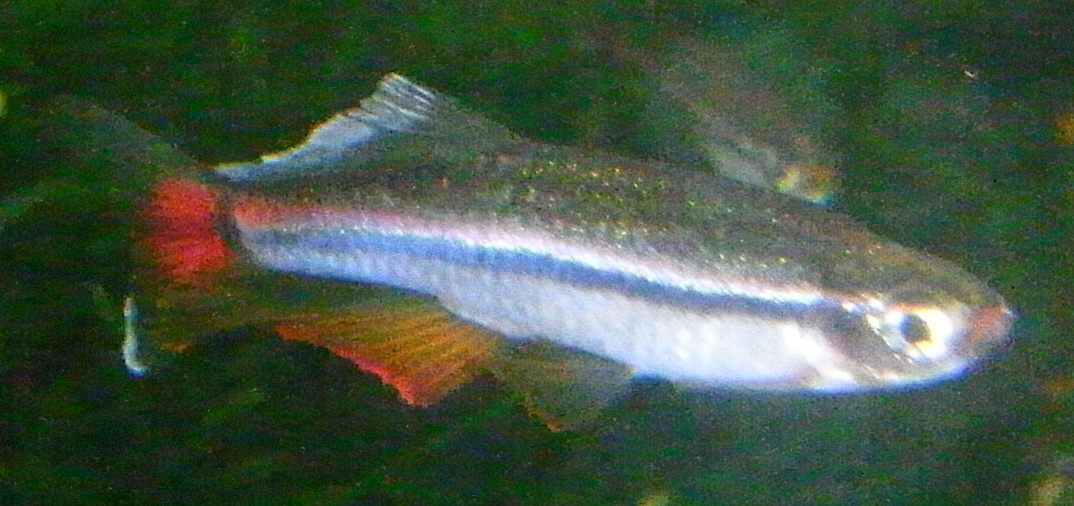 Tanichthys micagemmae male, selectively bred in captivity for long fins